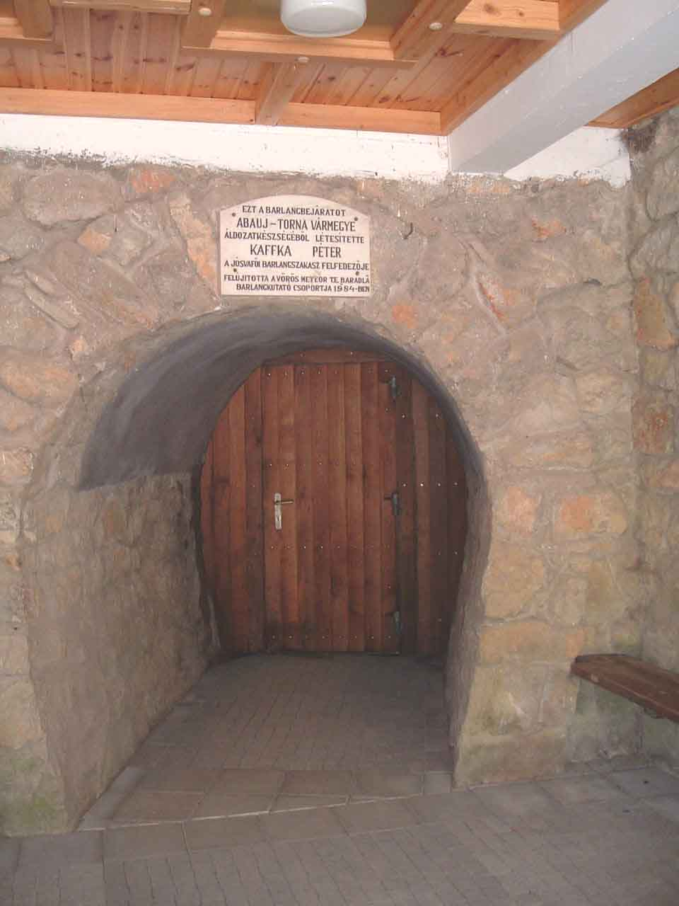 The entry of the stalagtite cave Jósvafő, Hungary